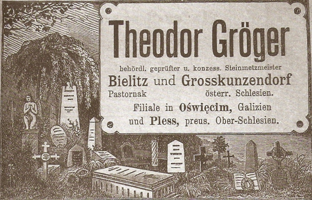 Advertisement of Theodor Gröger's mason shop.